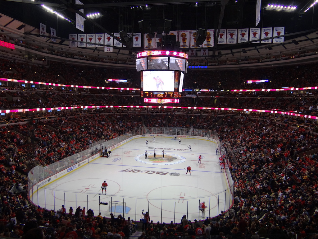 United Center - Home of the Chicago Blackhawks (NHL)